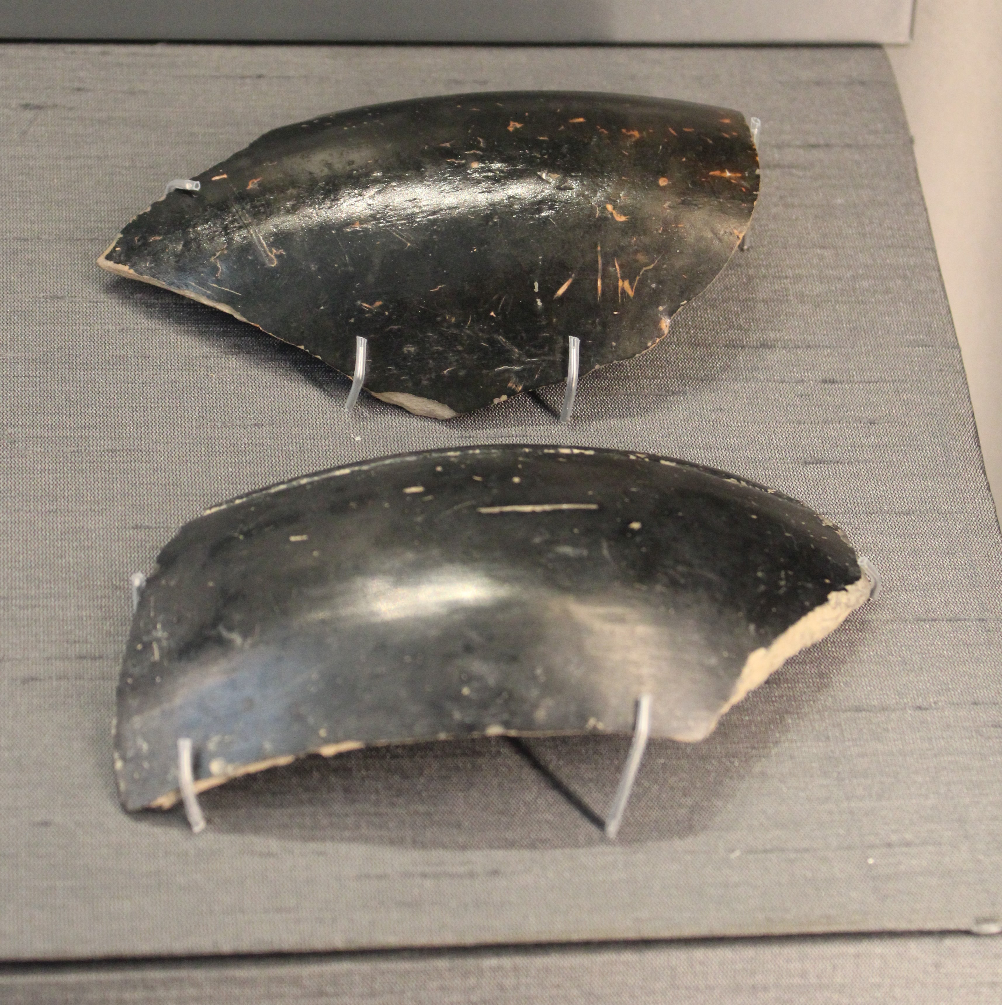 Fragments of Northern Black Polished Ware (NBPW) from Kausambi (Uttar Pradesh), 63/154, and Rajghat (Uttar Pradesh), 2017/19. About 500-400 BC. British Museum.